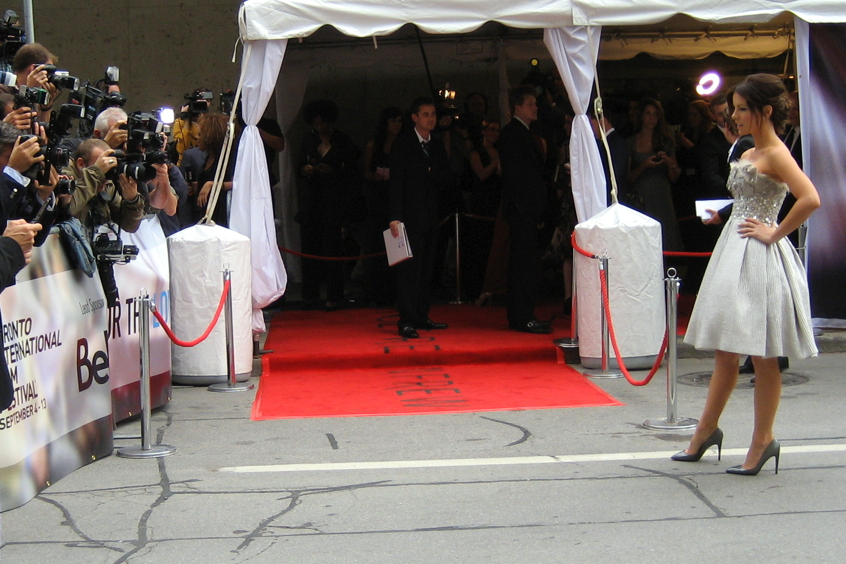 Kate Beckinsale in 2007.